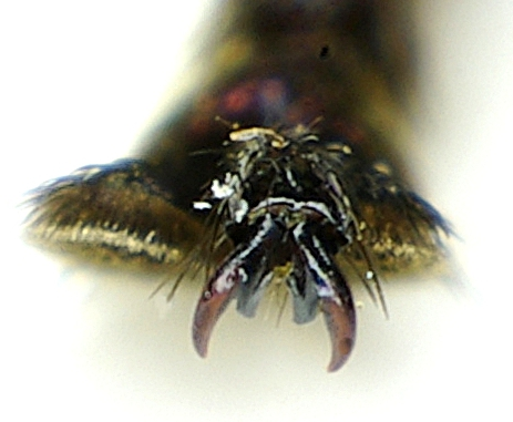 Rhynchites giganteus from Hungary, claw